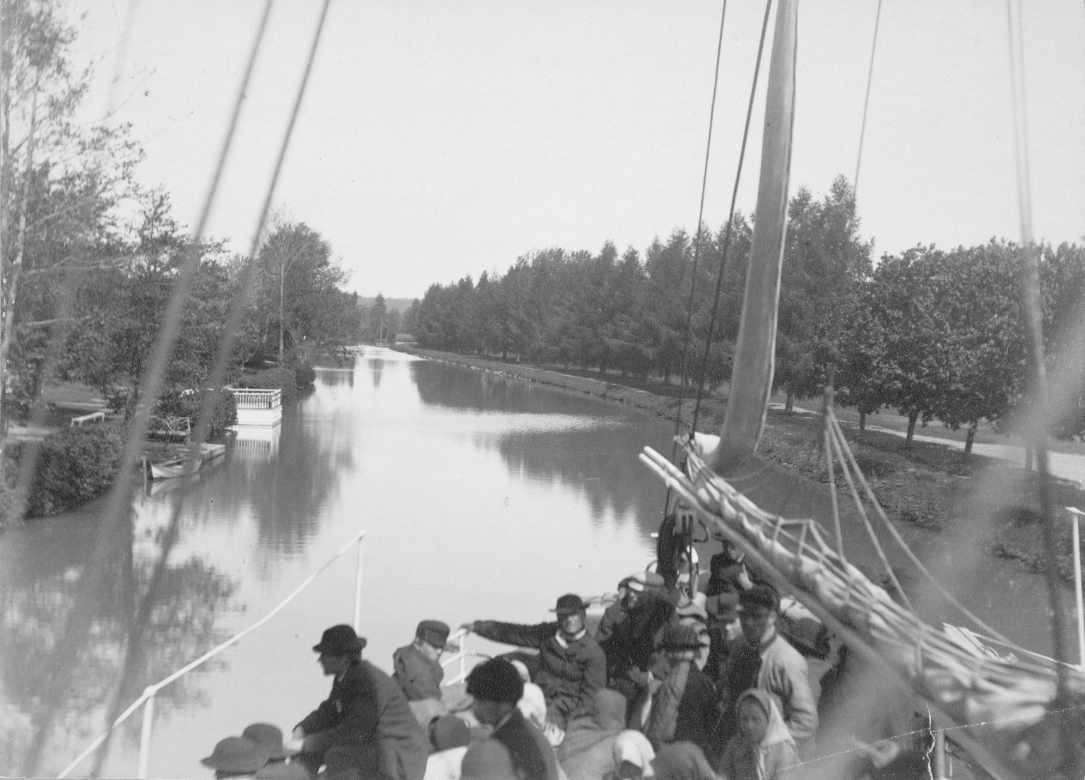 Collection: A. D. White Architectural Photographs, Cornell University Library Accession Number: 15/5/3090.00730 Title: Trollhätte Canal, Sweden Canal date: 1793 Photograph date: ca. 1865-ca. 1895 Location: Europe: Sweden Materials: albumen print Image: 6 3/8 x 8 3/4 in.; 16.1925 x 22.225 cm Provenance: Transfer from the College of Architecture, Art and Planning Persistent URI: There are no known U.S. copyright restrictions on this image. The digital file is owned by the Cornell University Library which is making it freely available with the request that, when possible, the Library be credited as its source. We had some help with the geocoding from Web Services by Yahoo!